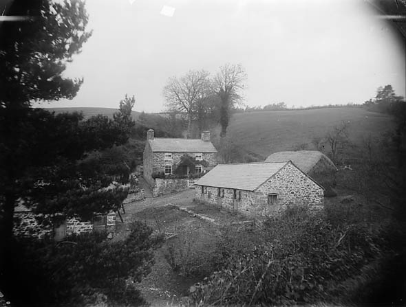 1 negative : glass, dry plate, b&w ; 16.5 x 21.5 cm.